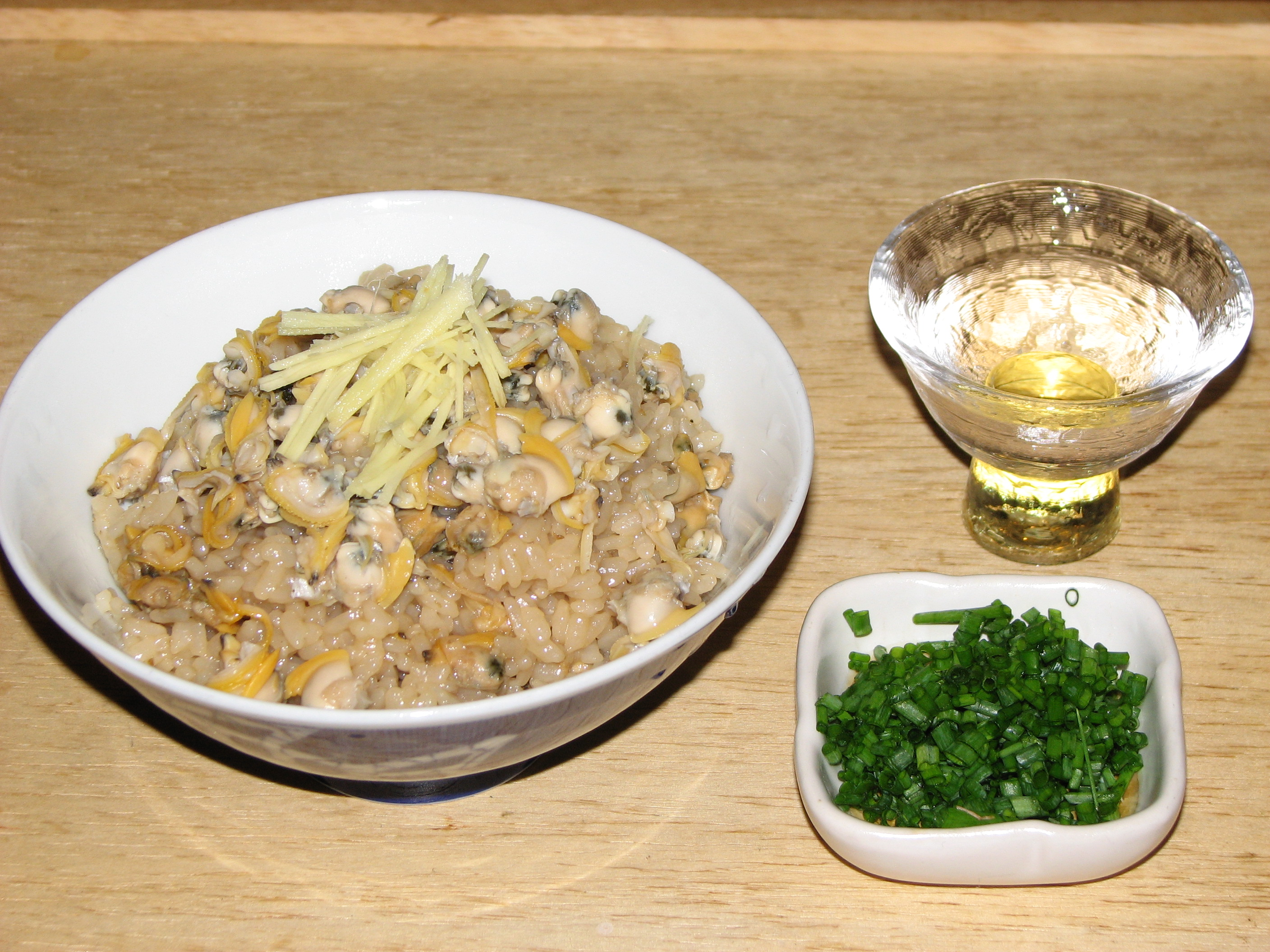 Fukagasa-meshi(clam bowl